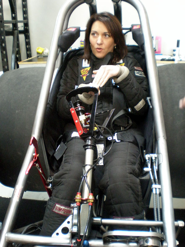 Mendy Fry gets fitted for the Future Flash funny car.